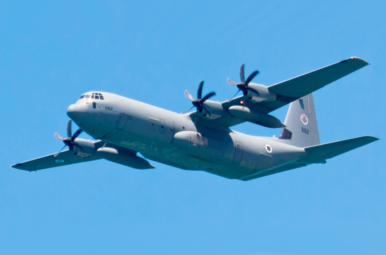 C-130J Shimshon during Israel's 68th Independence Day flypast